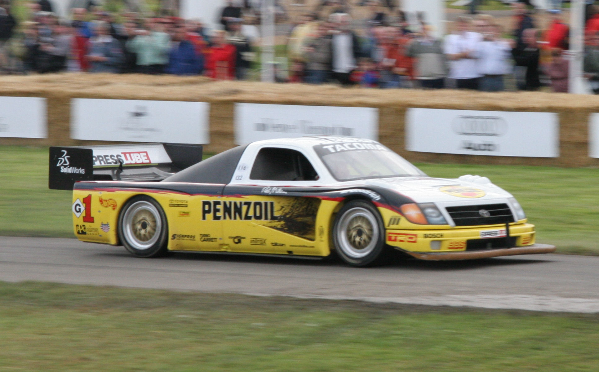 Pikes Peak Toyota Tacoma, Goodwood Festival of Speed, 2007